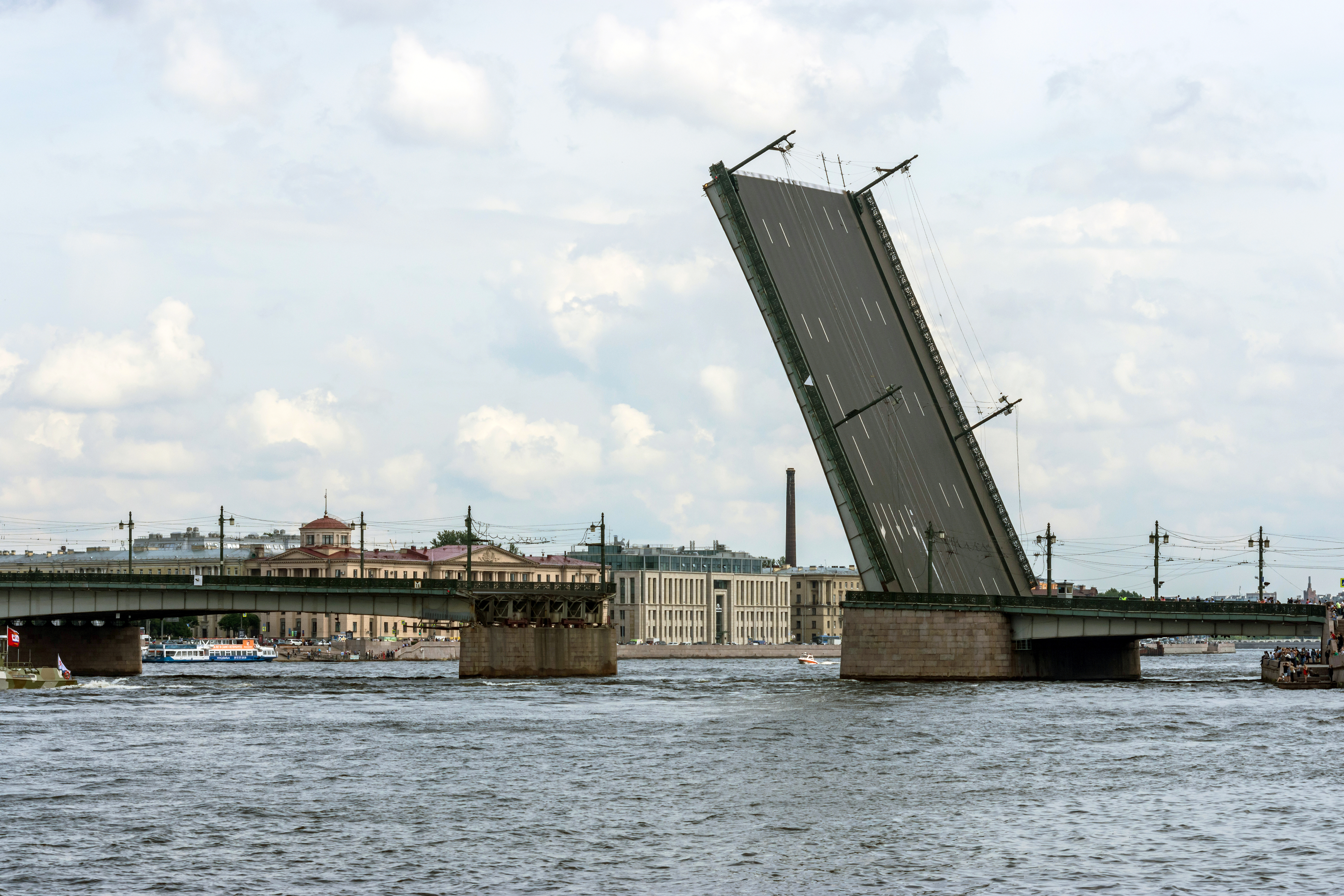 Drawn Liteyny Bridge in Saint Petersburg